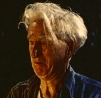 Olin Howland (aka Olin Howlin) in The Blob (1958) - trailer (cropped screenshot)